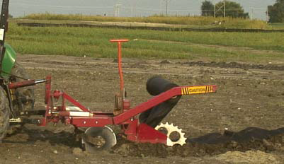 View of a static slicing machine used for installation of silt fences.